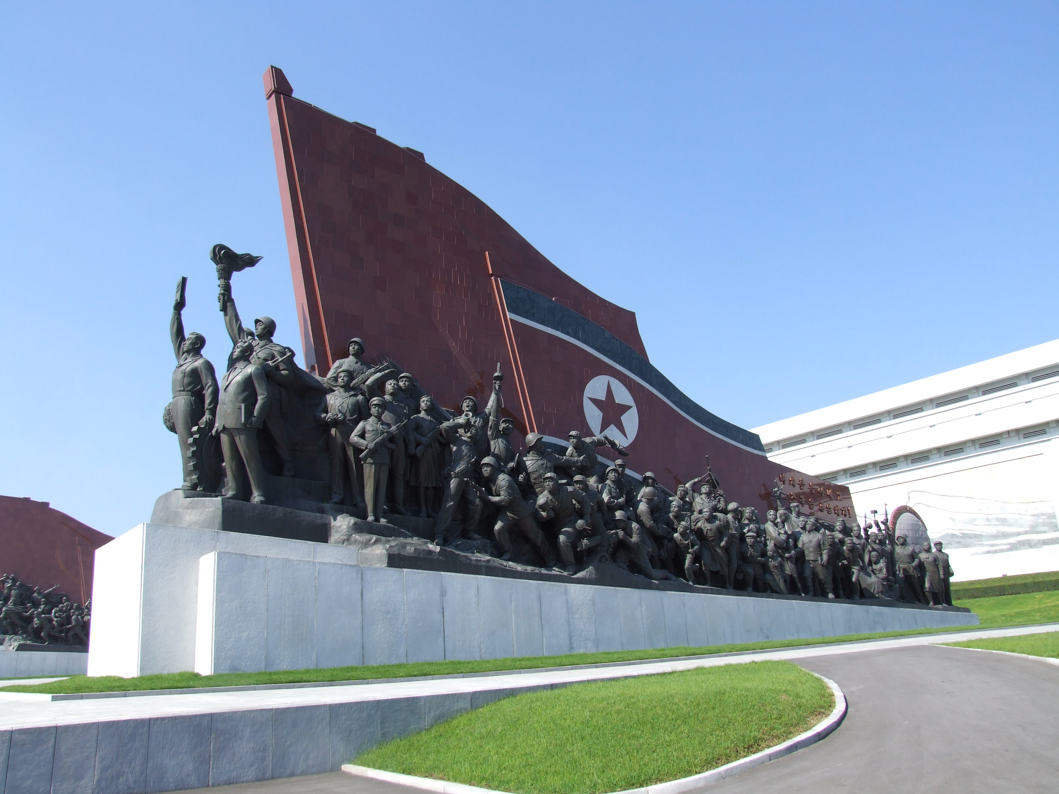 Mansudae Grand Monument